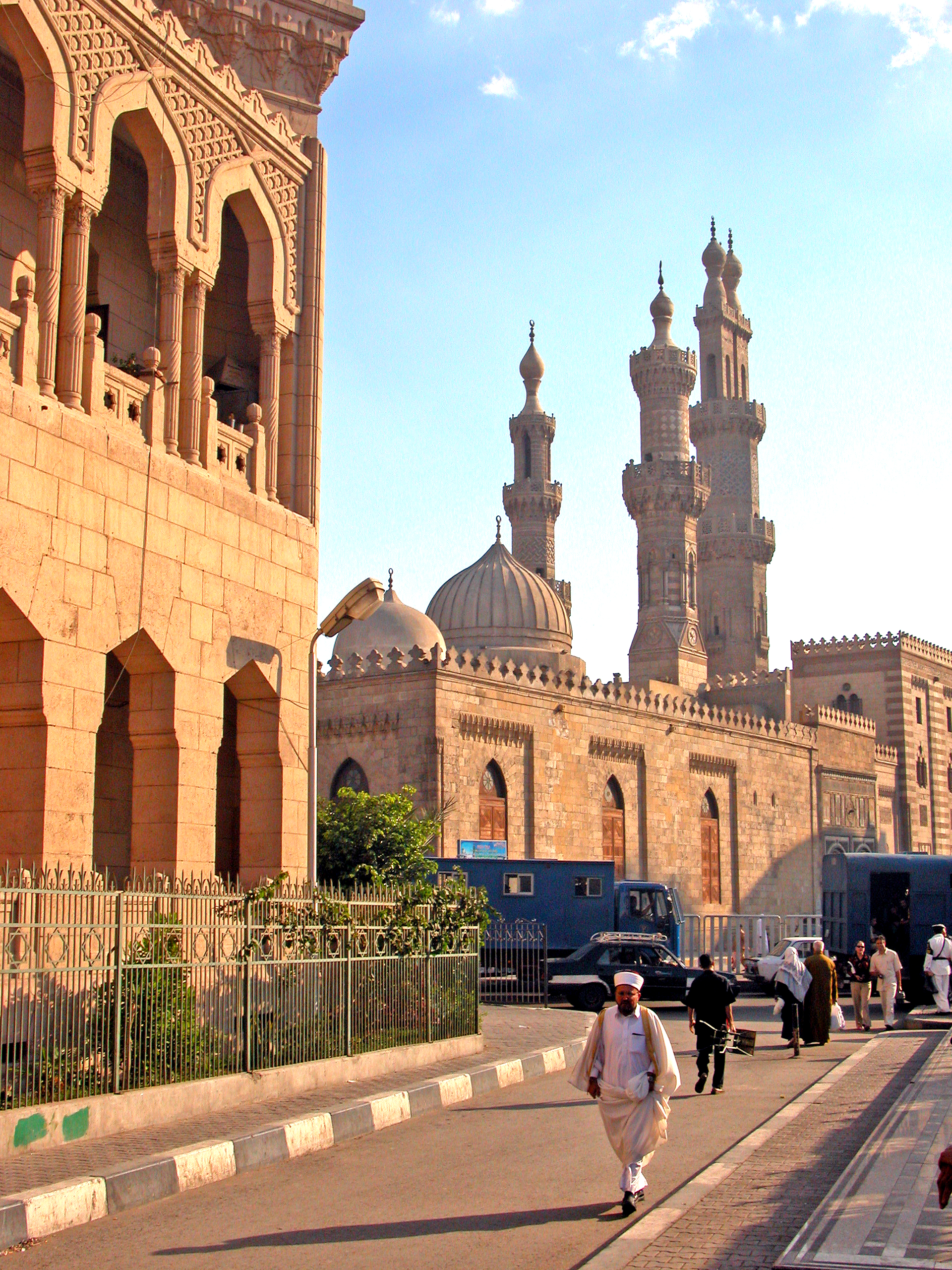 Al-Azhar Mosque, Cairo, Egypt.